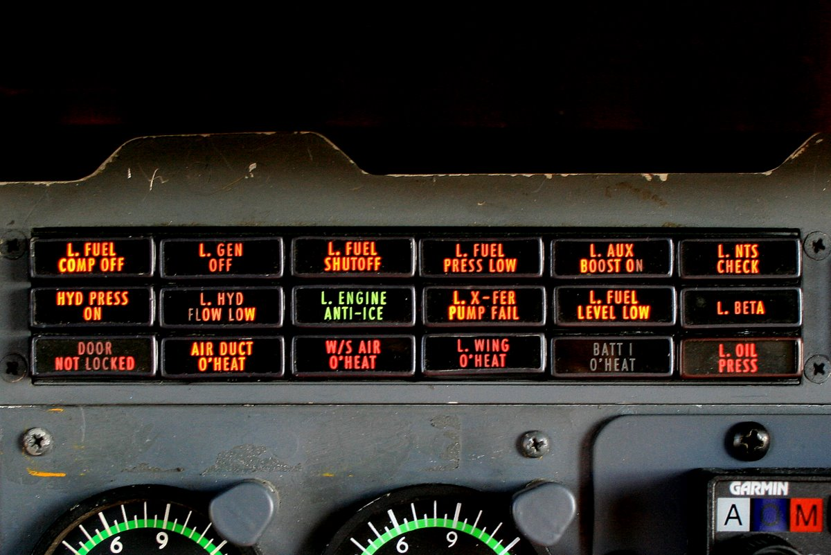 The left-hand module of a Cessna 441 Conquest annunciator panel in 'test' mode. Most of the annunciators are for the left engine or systems and have counterparts in the right-hand module. The BATT 1 O'HEAT annunciator in the bottom row is not illuminated, as it denotes a hot Nickel-Cadmium battery and the aircraft has been fitted with Lead-Acid batteries. Digital image taken by YSSYguy on 14 July 2010 and uploaded for use in the annunciator panel article. Image edited using Picasa software. YSSYguy